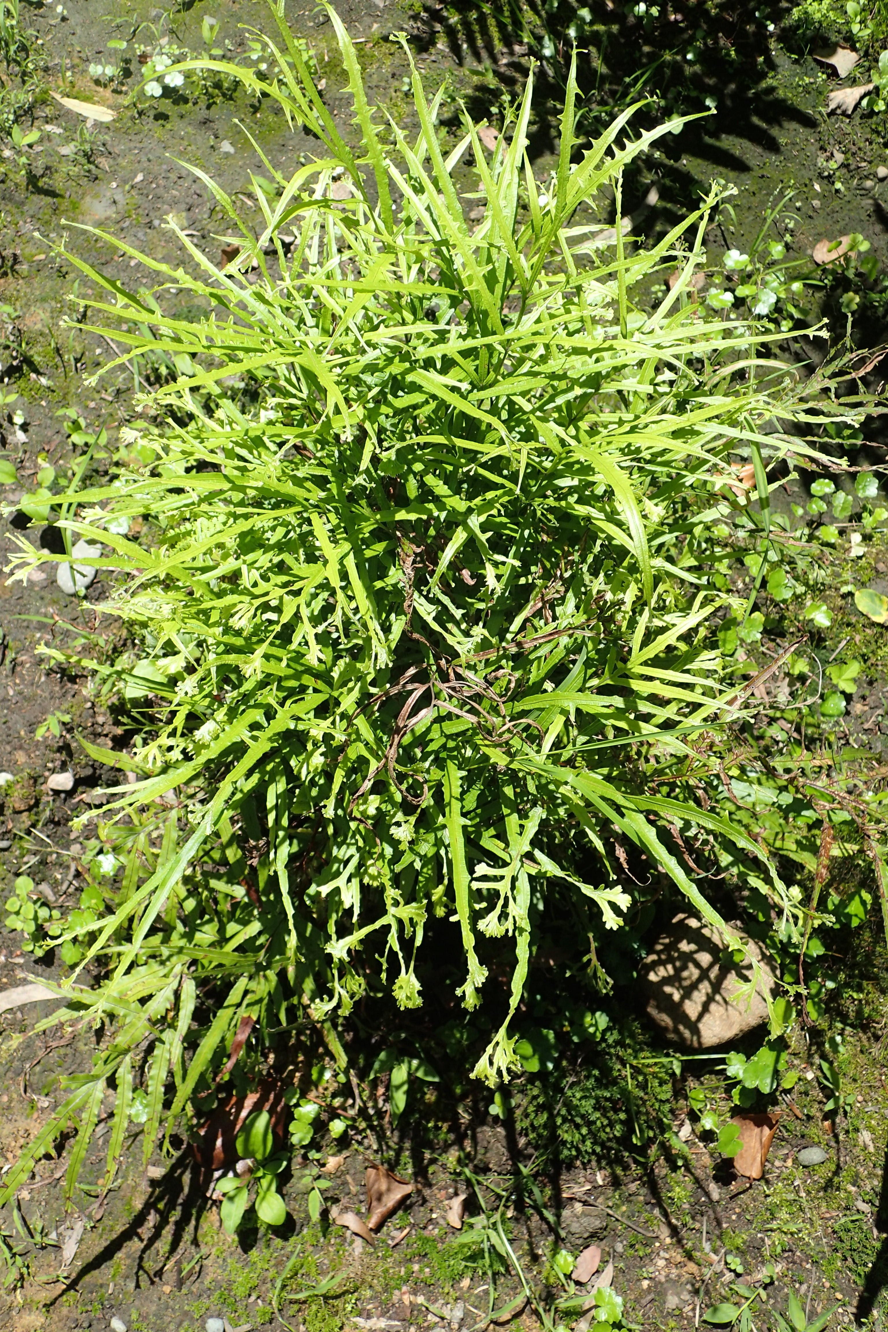 Pteris serrulata in botanical garden in Batumi